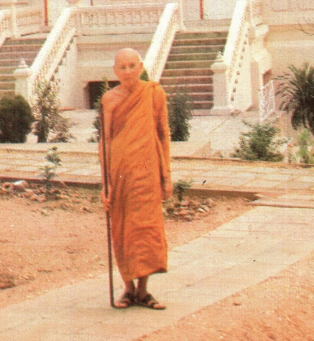 Ajahn Thate at Wat Hin Maak Peng